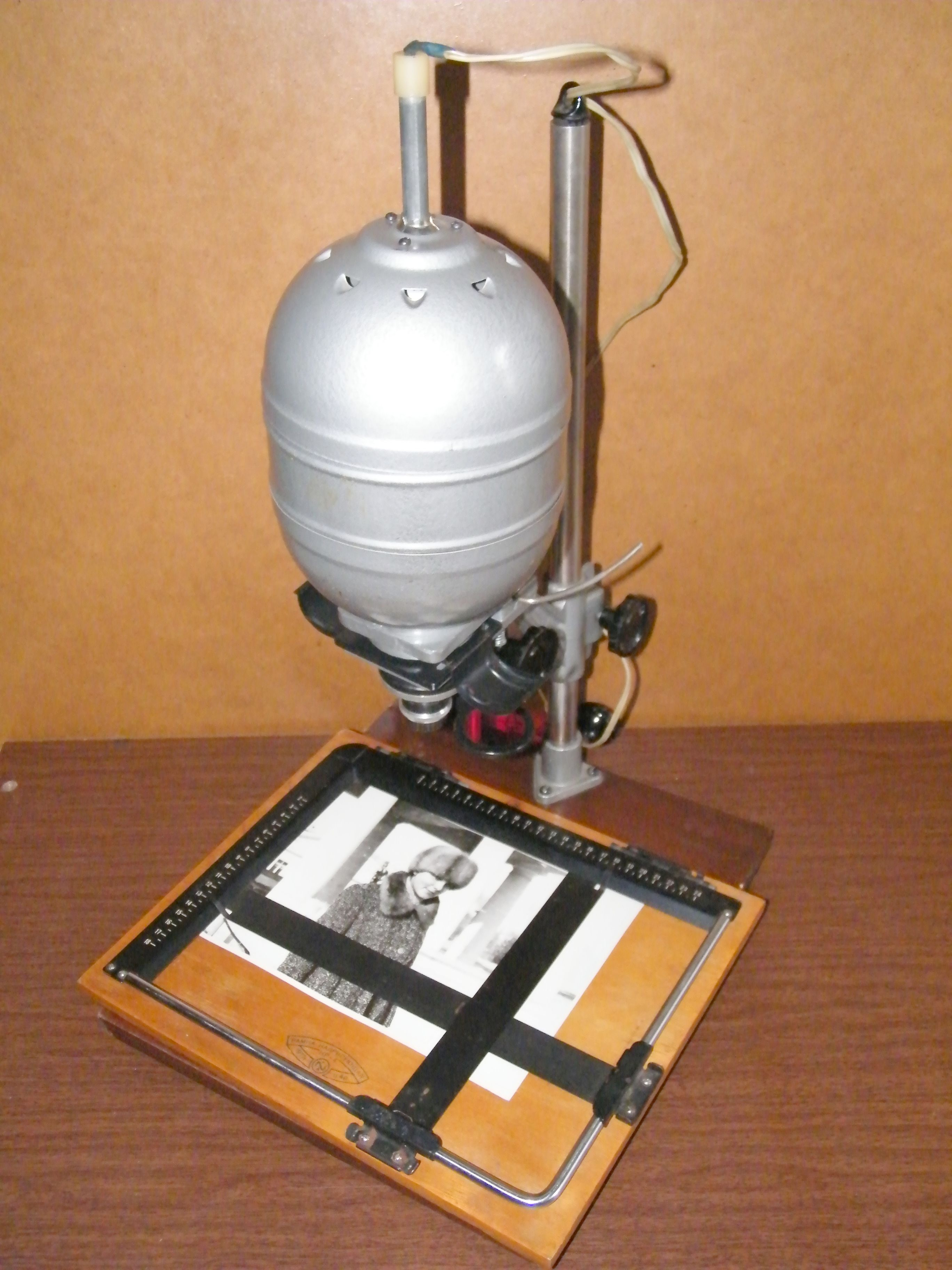 Photographic enlarger "Younost'" ("Youth") for beginning amateur photographers and cropping framework. The USSR, 1977. The photo of girl Natasha is made by the author of this photo in 1984 in a public place. The license for a photo of girl Natasha the same, as on the basic photo (cc-by-sa-3.0).